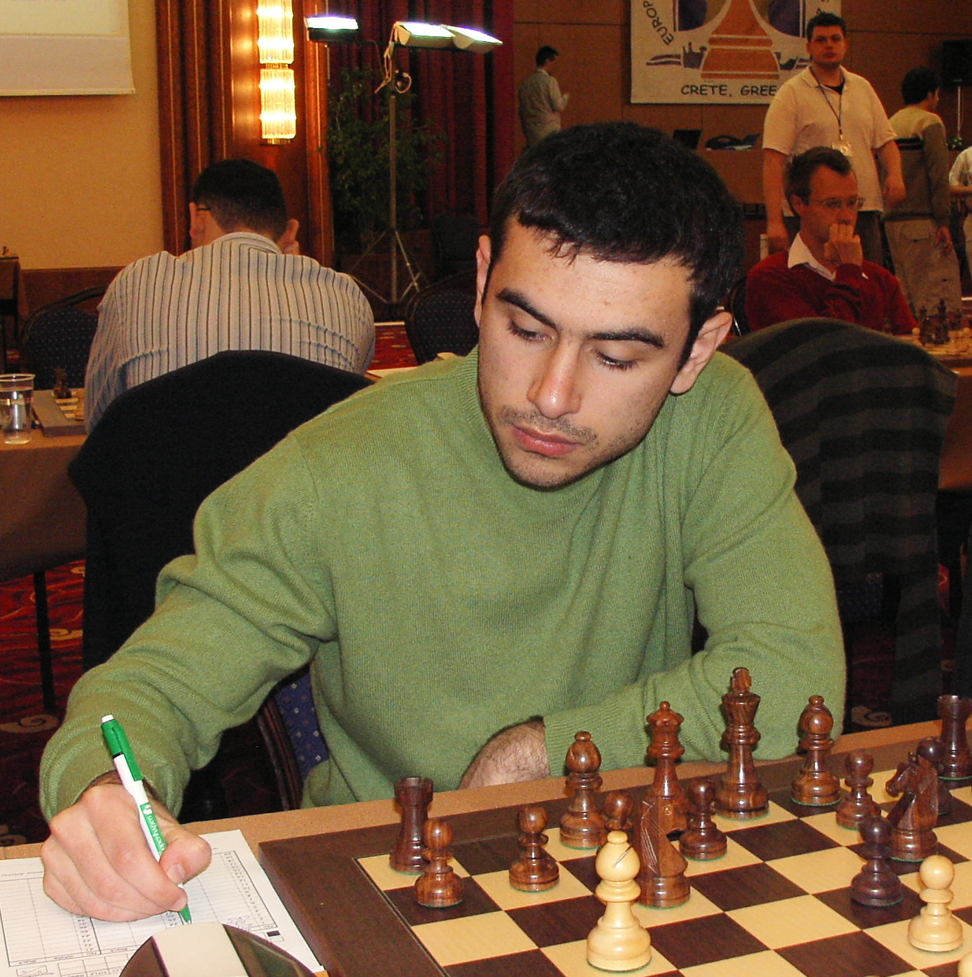 GM Gabriel Sargissian (Armenia), Heraklion 2007